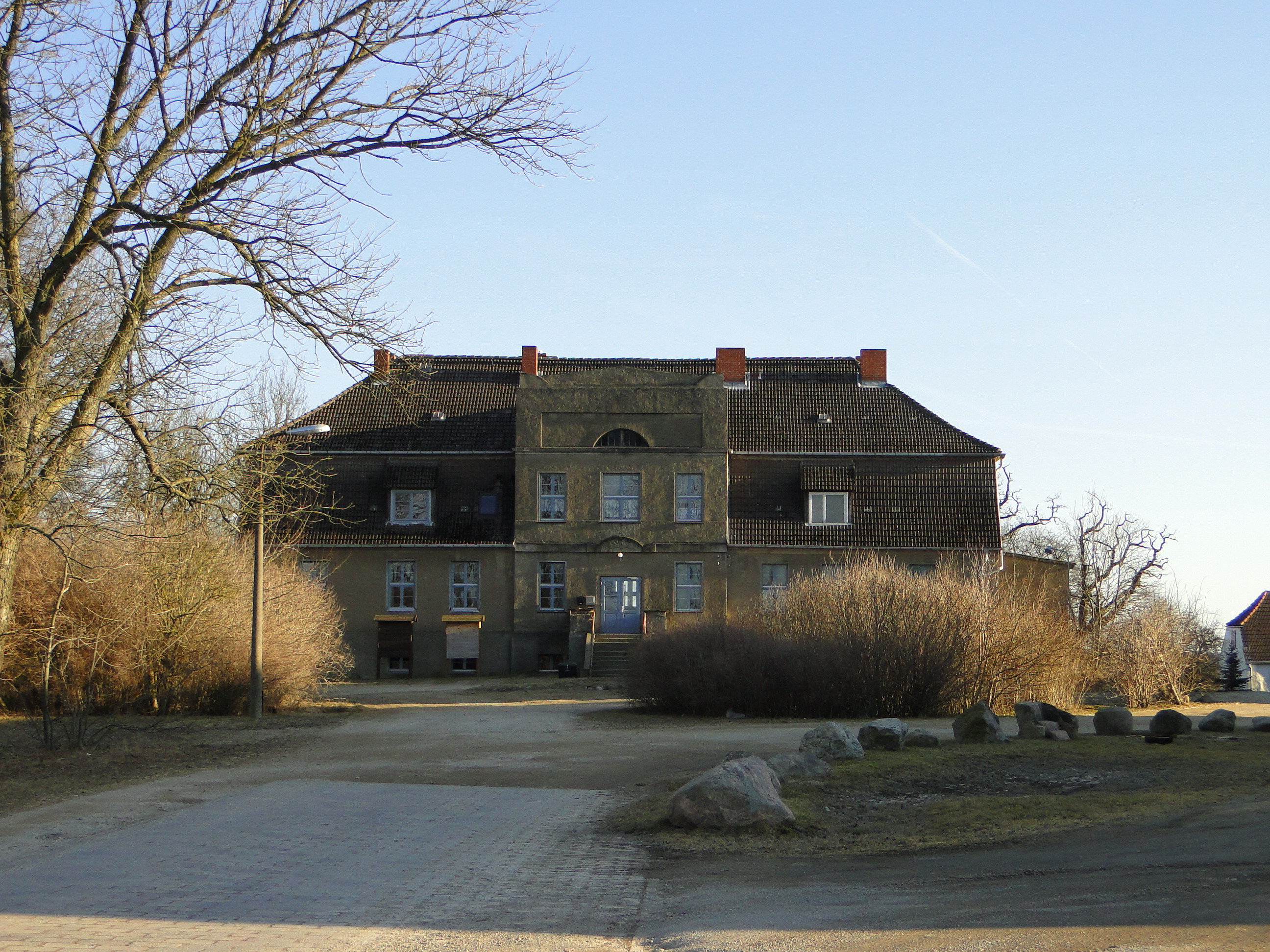 Manor house in Wittenhagen, district Mecklenburgische Seenplatte, Mecklenburg-Vorpommern, Germany